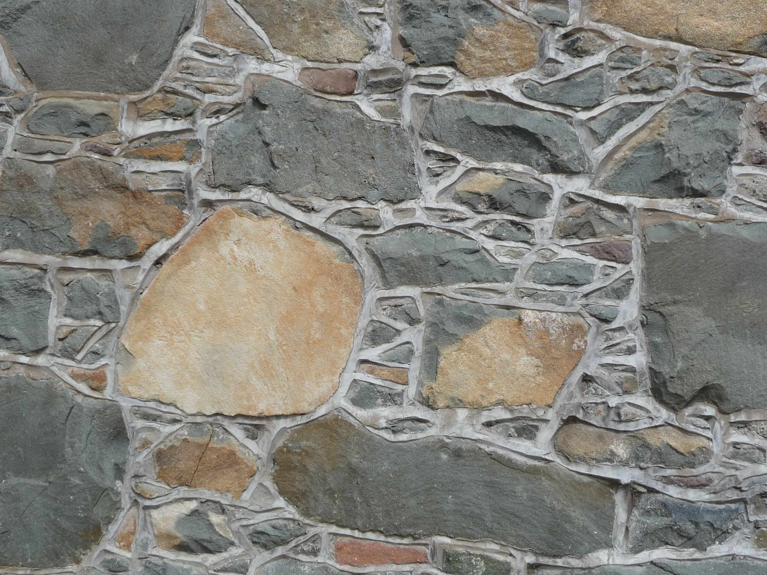 Moffat, Dumfries and Galloway, Scotland